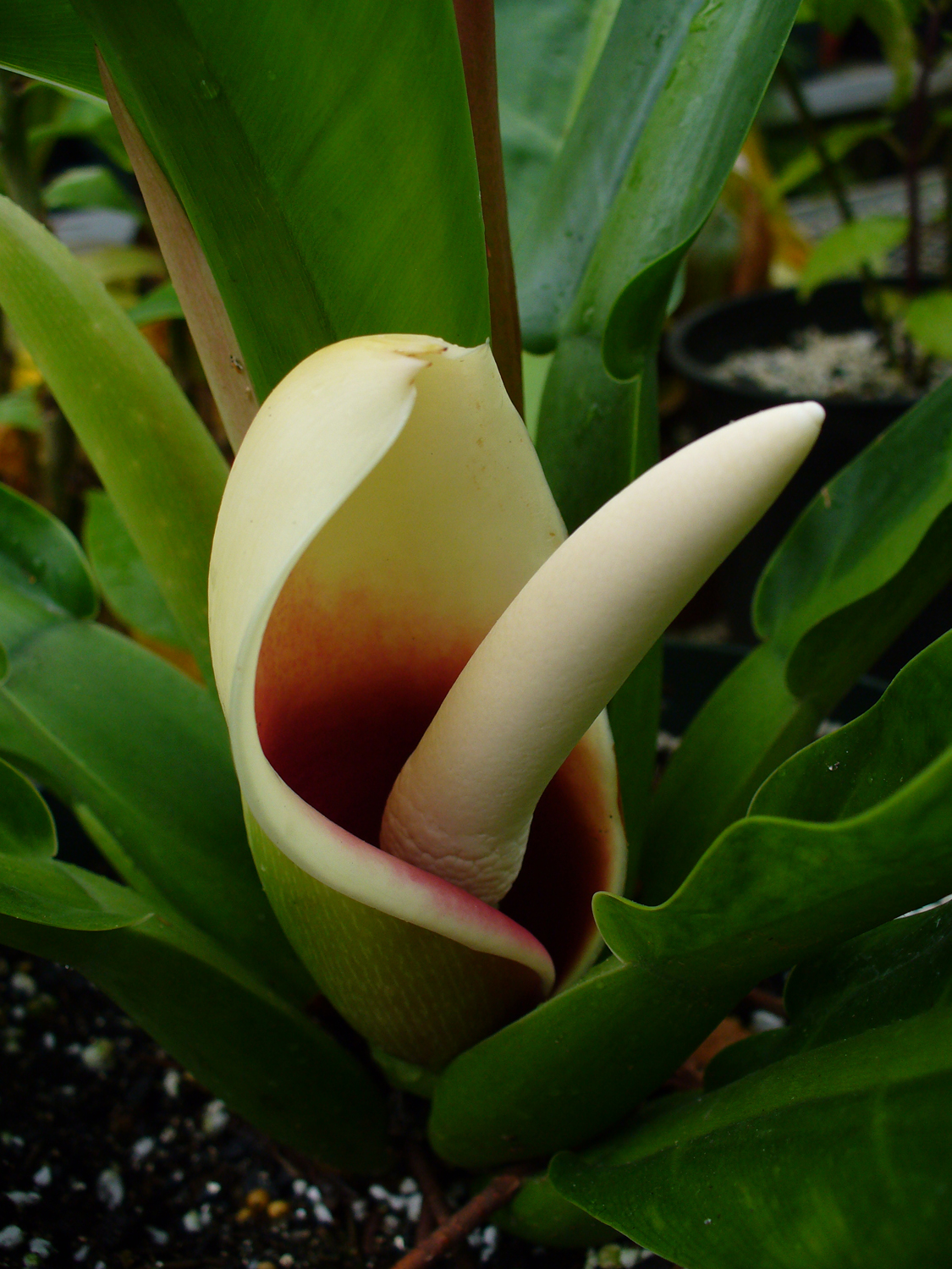 Biological Sciences Dept. greenhouse, Florida International University, Miami, USA. Thanks to Steve Lucas at exoticfrainforest for correcting the id of this species.